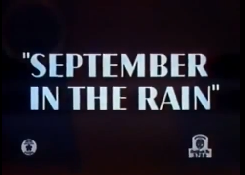 Title card from the Blue Ribbon reissue of the Warner Bros. cartoon "September in the Rain."